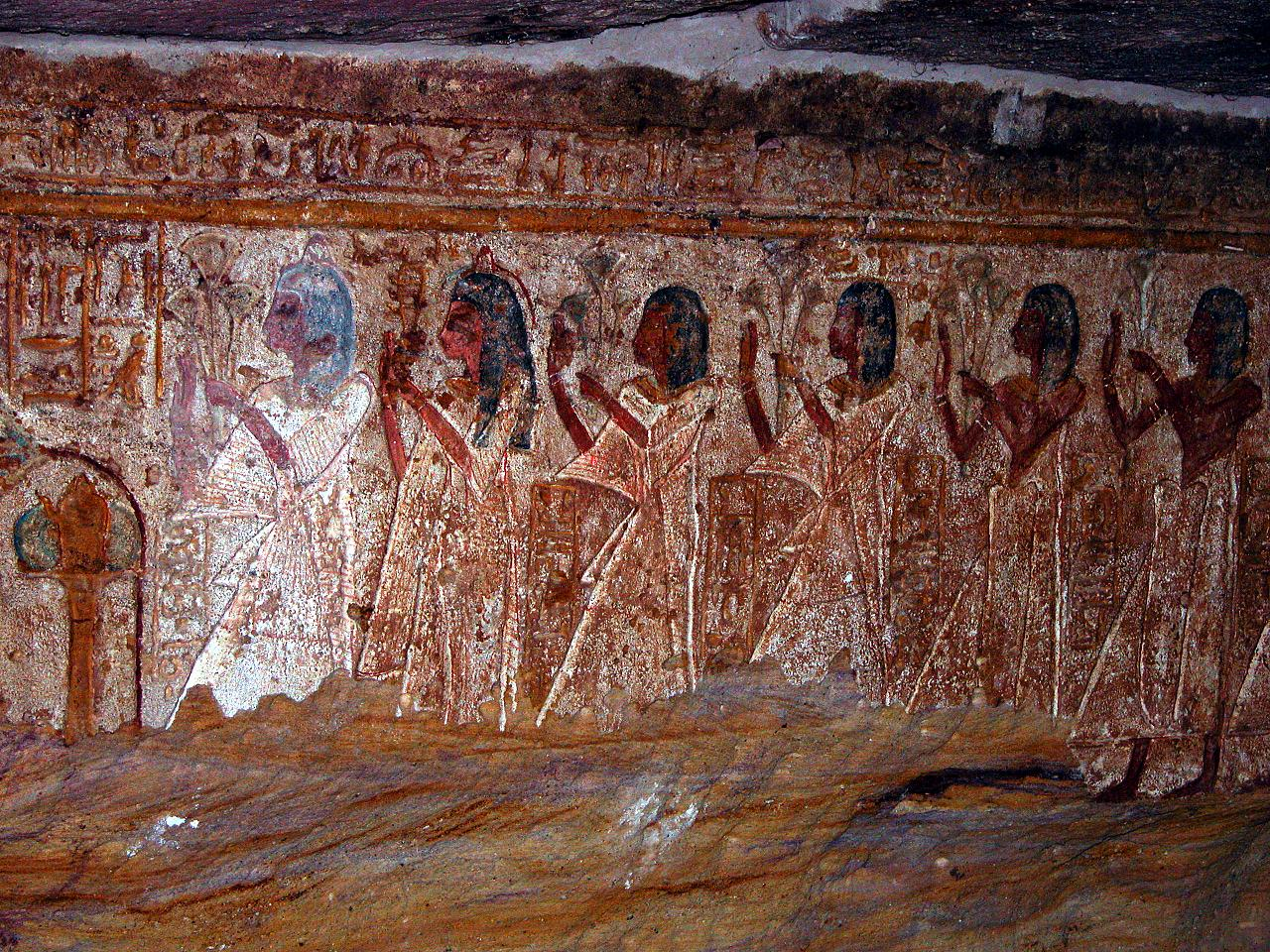 In the 1970s some of the best and most colourful of the scenes were stolen. Tomb of Pennut. Lake Nasser, Egypt